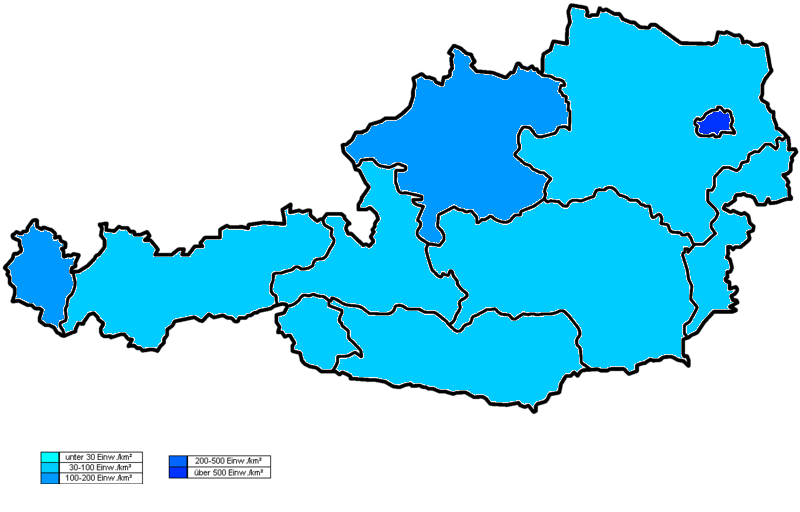 map of Austria (the colours signify the population density in the states)